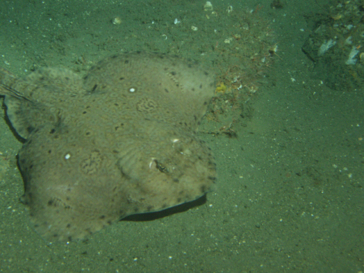 Starry skate (Raja stellulata) observed off Point Sur during a sanctuary seafloor monitoring survey using the Delta submersible.